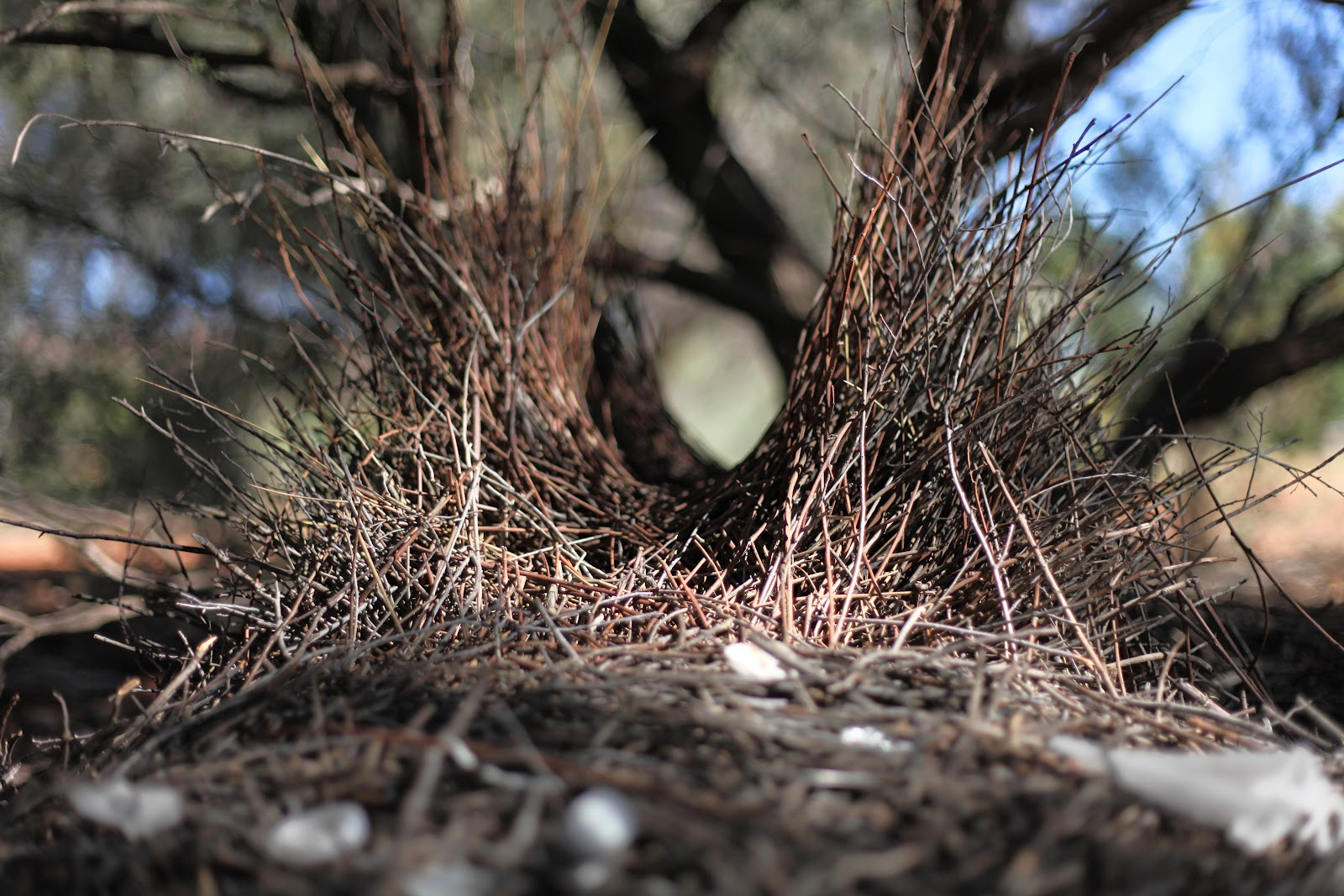 Western Bowerbird (Chlamydera guttata), Northern Territory, Australia